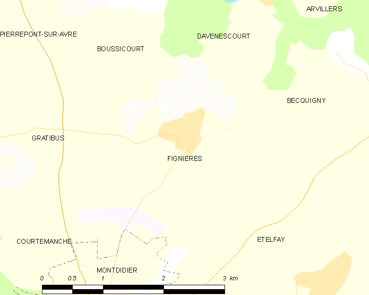 Map of French municipality Fignières